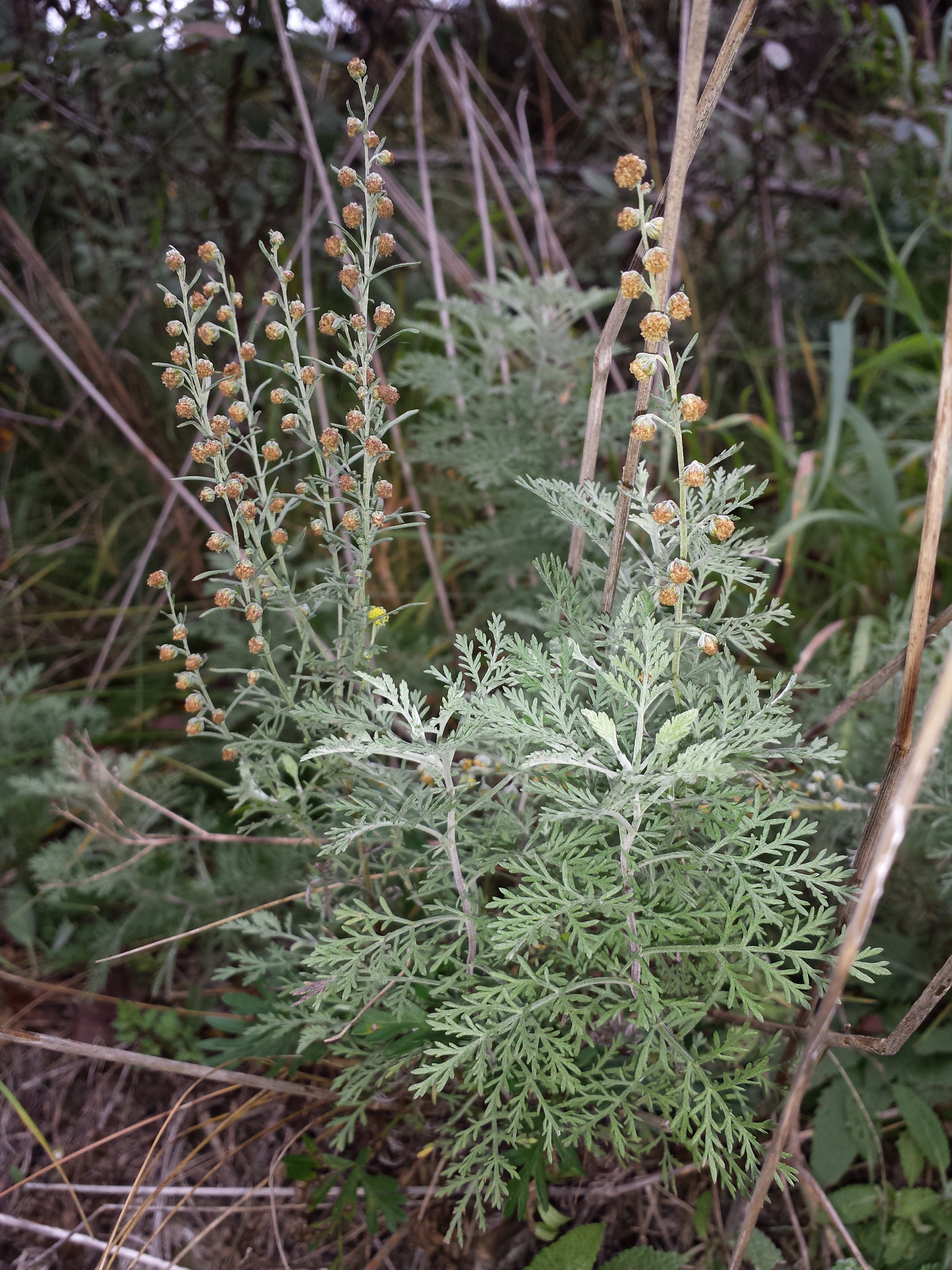 Habitus Taxon: Artemisia pontica (sensu Fischer et al. EfÖLS 2008 ISBN 978-3-85474-187-9) Location: Reiternweg near Goggendorf, district Hollabrunn, Lower Austria - ca. 250 m a.s.l. Habitat: Loess wall This media shows the natural monument in Lower Austria with the ID HL-040.